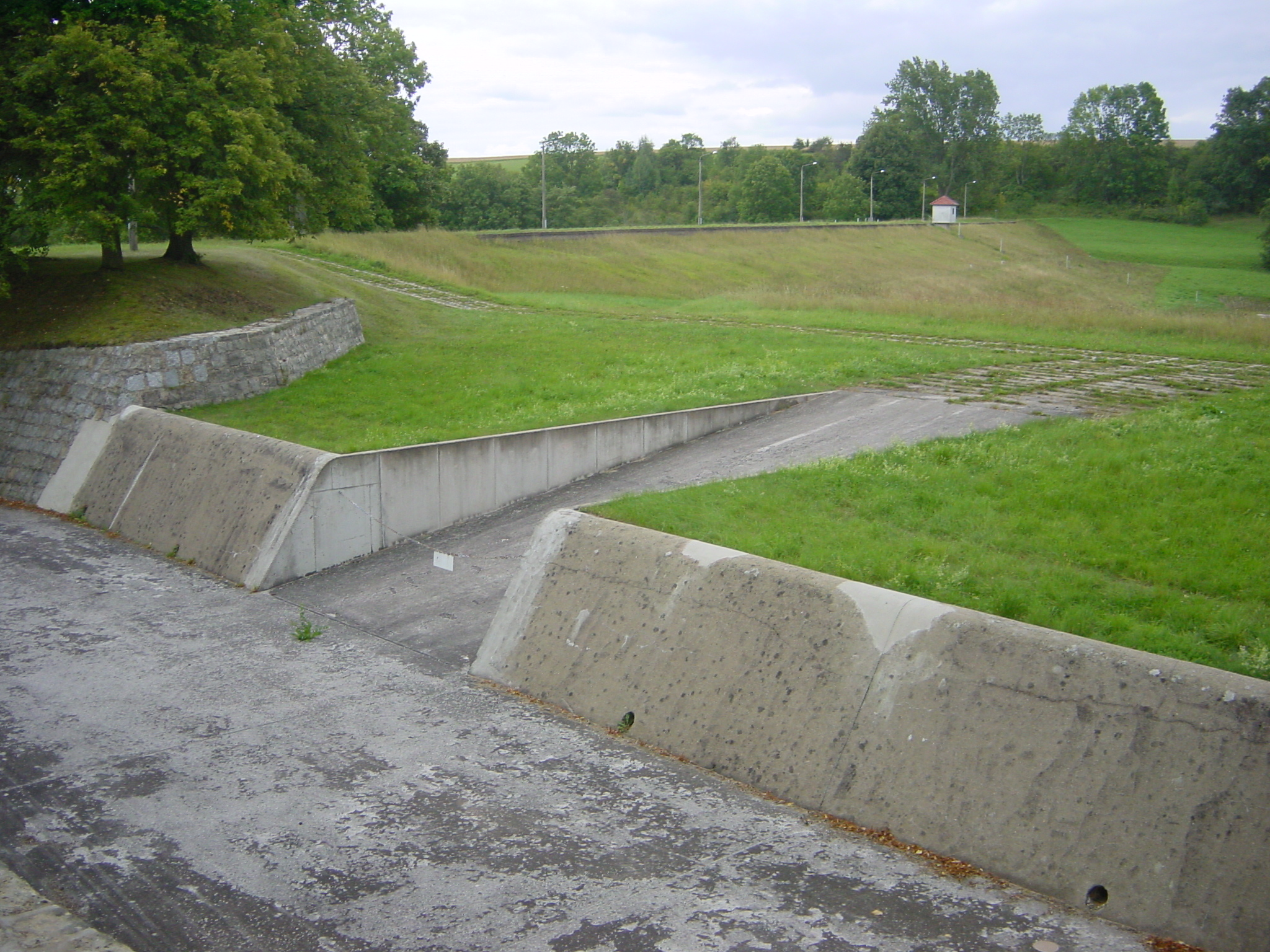 retention reservoir Luhne-Lengefeld in Thuringia, Germany